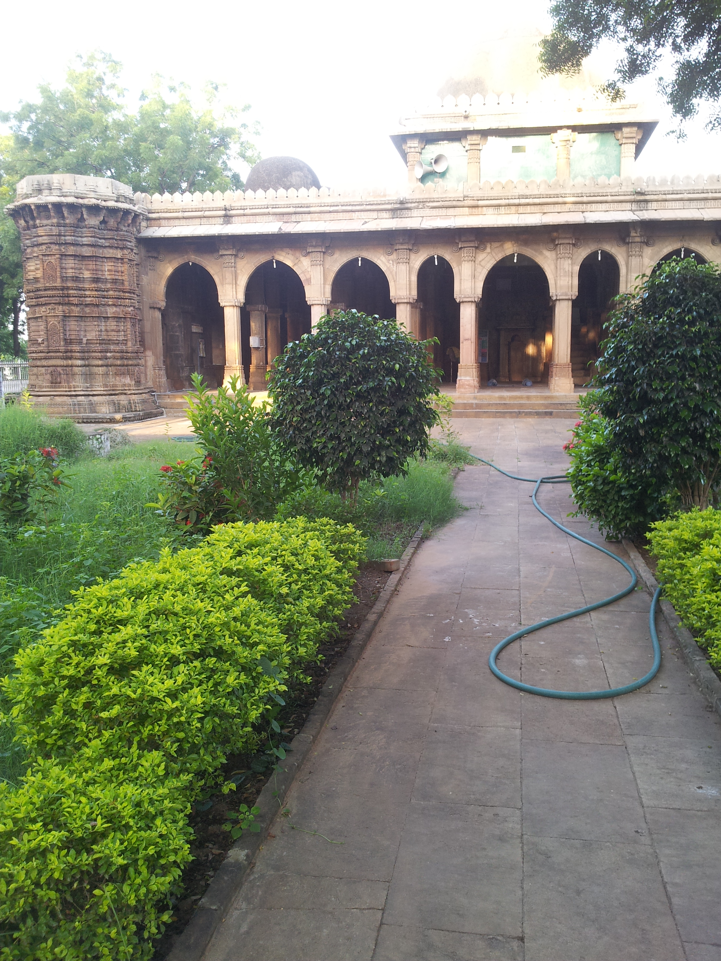 Baba Lauli's Masjid